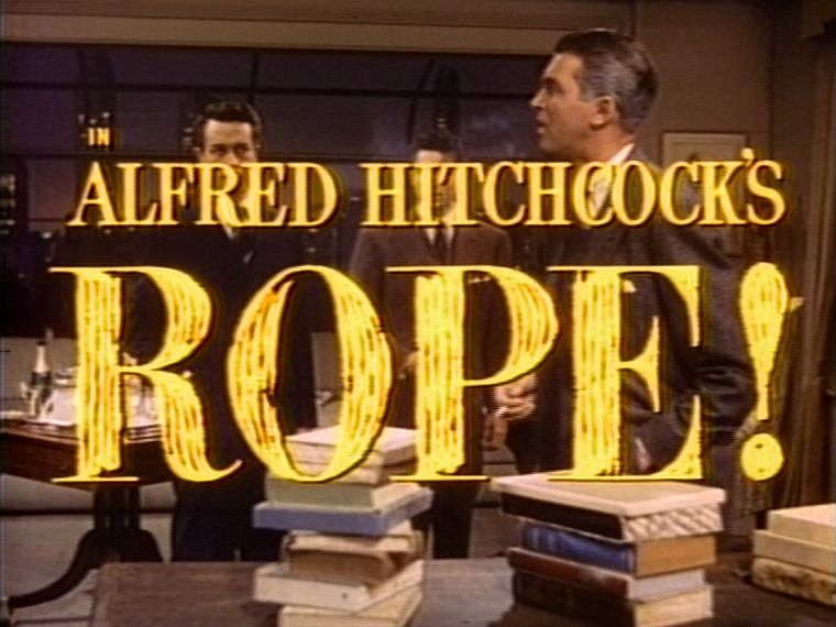 Cropped screenshot of James Stewart from the trailer for the film Rope